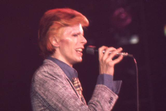 Young Americans tour at the Washington DC Capital Centre on 11 November 1974.